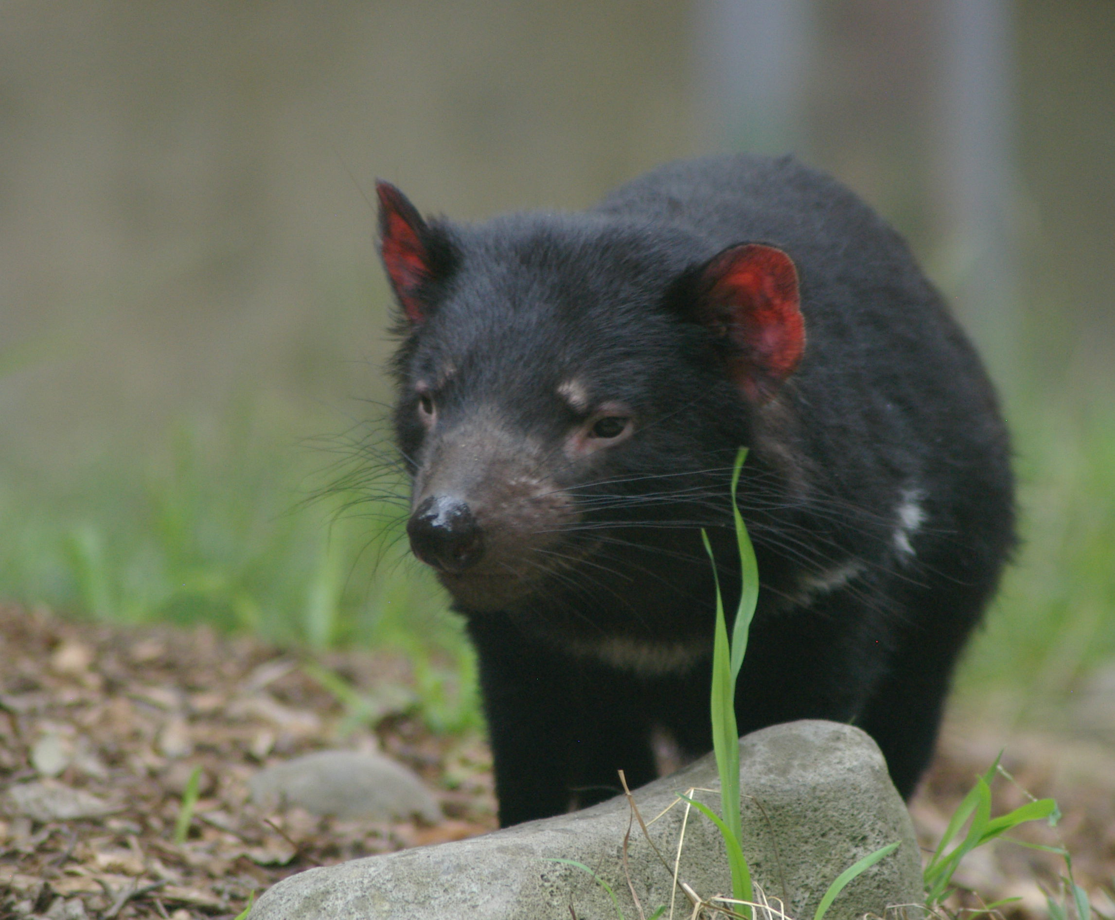 Tasmanian Devil at Healesville Sanctuary, Victoria, Australia.